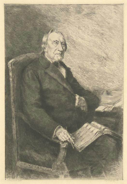 Robert Franz, by Herrmann, Curt, 1854-1929 (Artist) and Gribayèdoff, Valerian (Etcher)